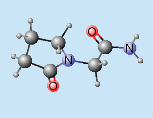 3D Chemical structure of the piracetam. Made with Corina Software